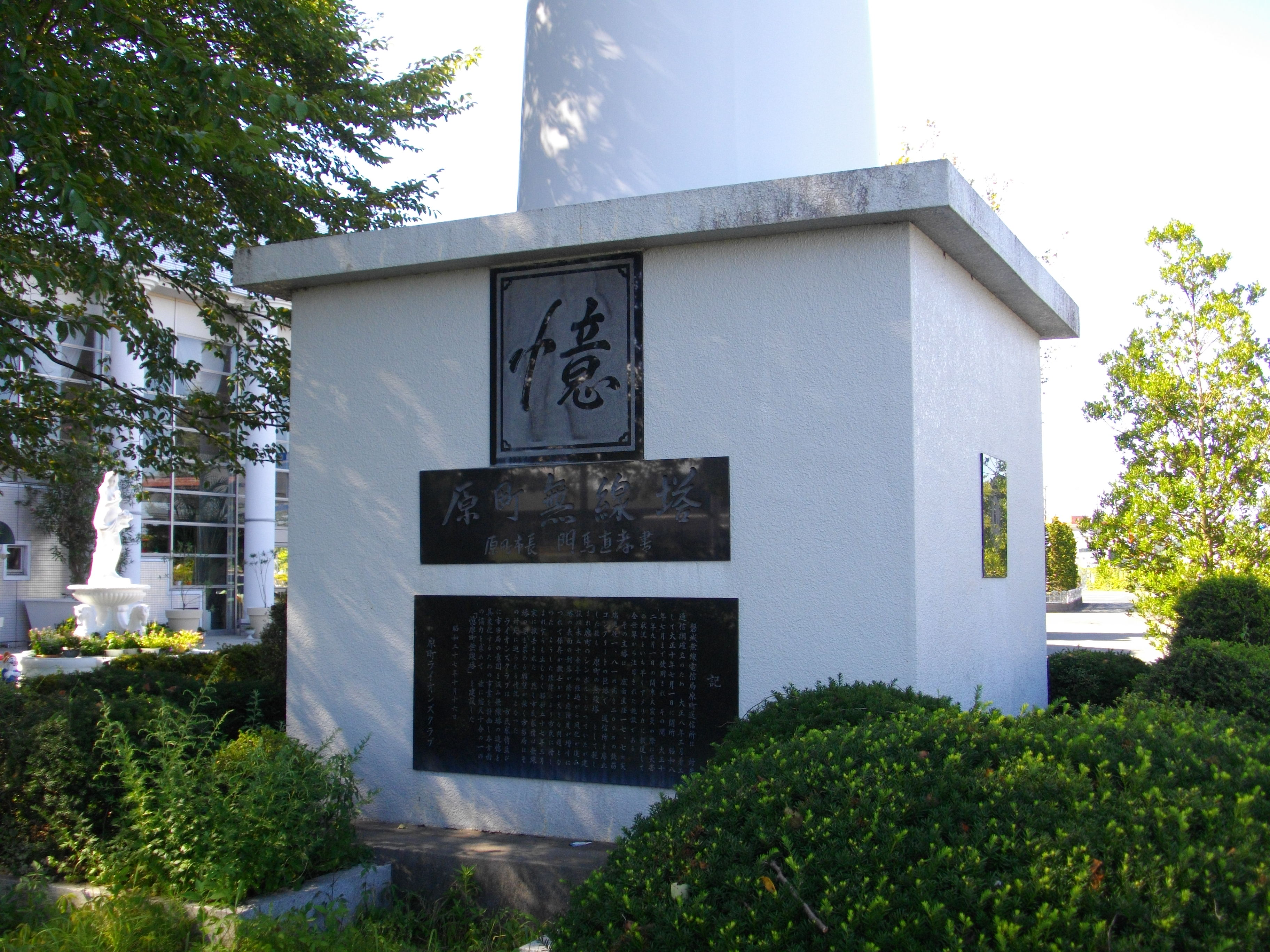 Oku Haramachi Memorial Radio Tower (Location:Fukushima-pref.JAPAN) ,The monument of the Haramachi Radio Tower.